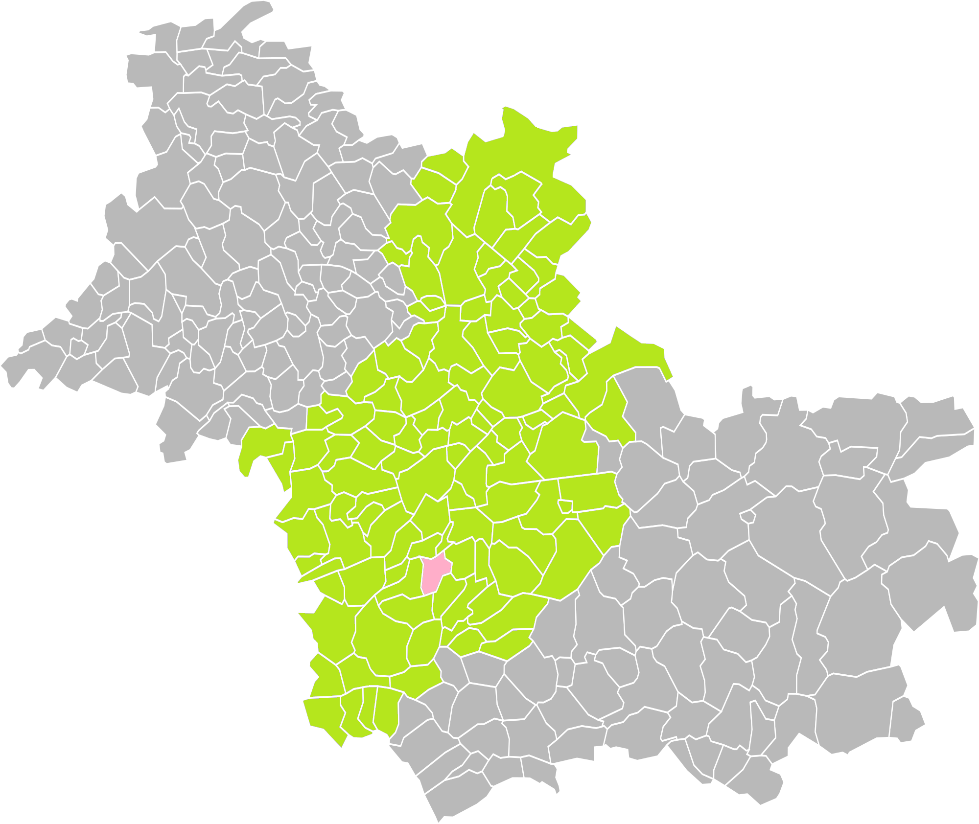 Location of the commune of Ouchamps in the arrondissement of Bloisy (Loir-et-Cher)